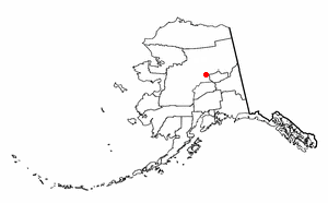 Adapted from Wikipedia's AK borough maps by Seth Ilys.